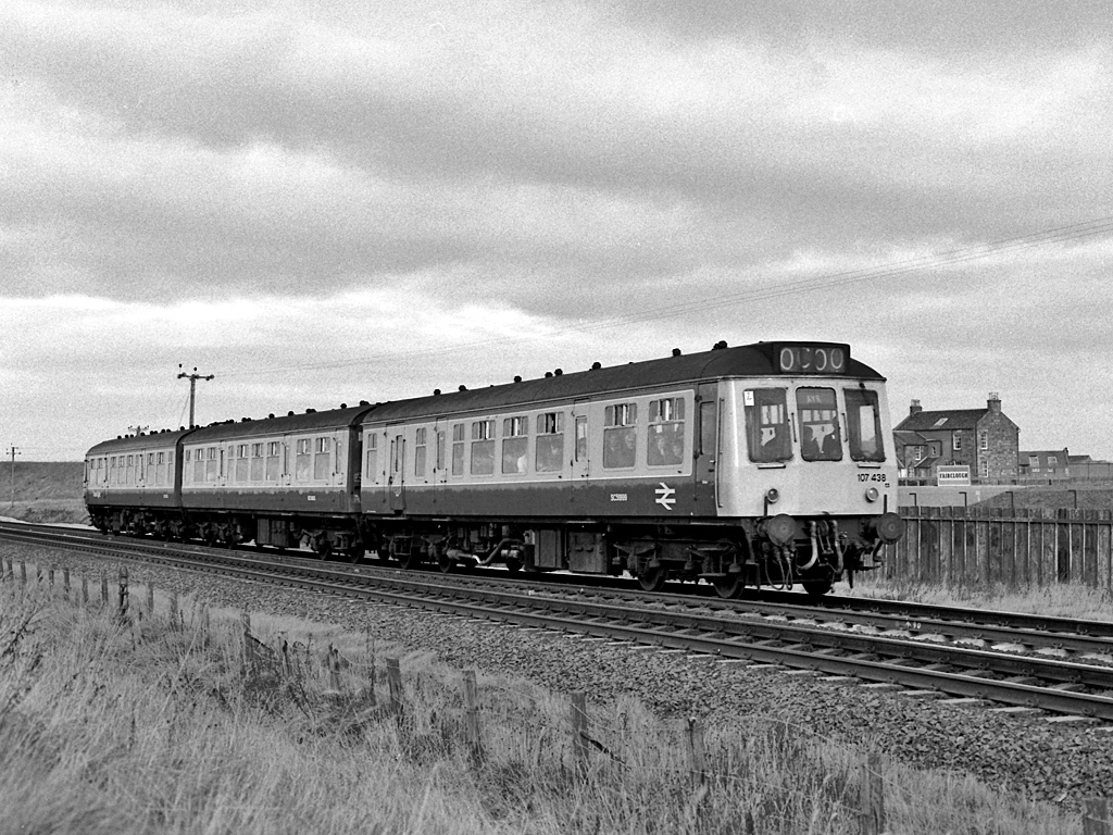 British Railways Derby Works class 107 three-car diesel-mechanical multiple unit SC51999, SC59803 and SC52028 approaches Gailes level crossing on the Down Ayr line forming the 10:35 Glasgow Central to Ayr. Saturday 29th October 1983